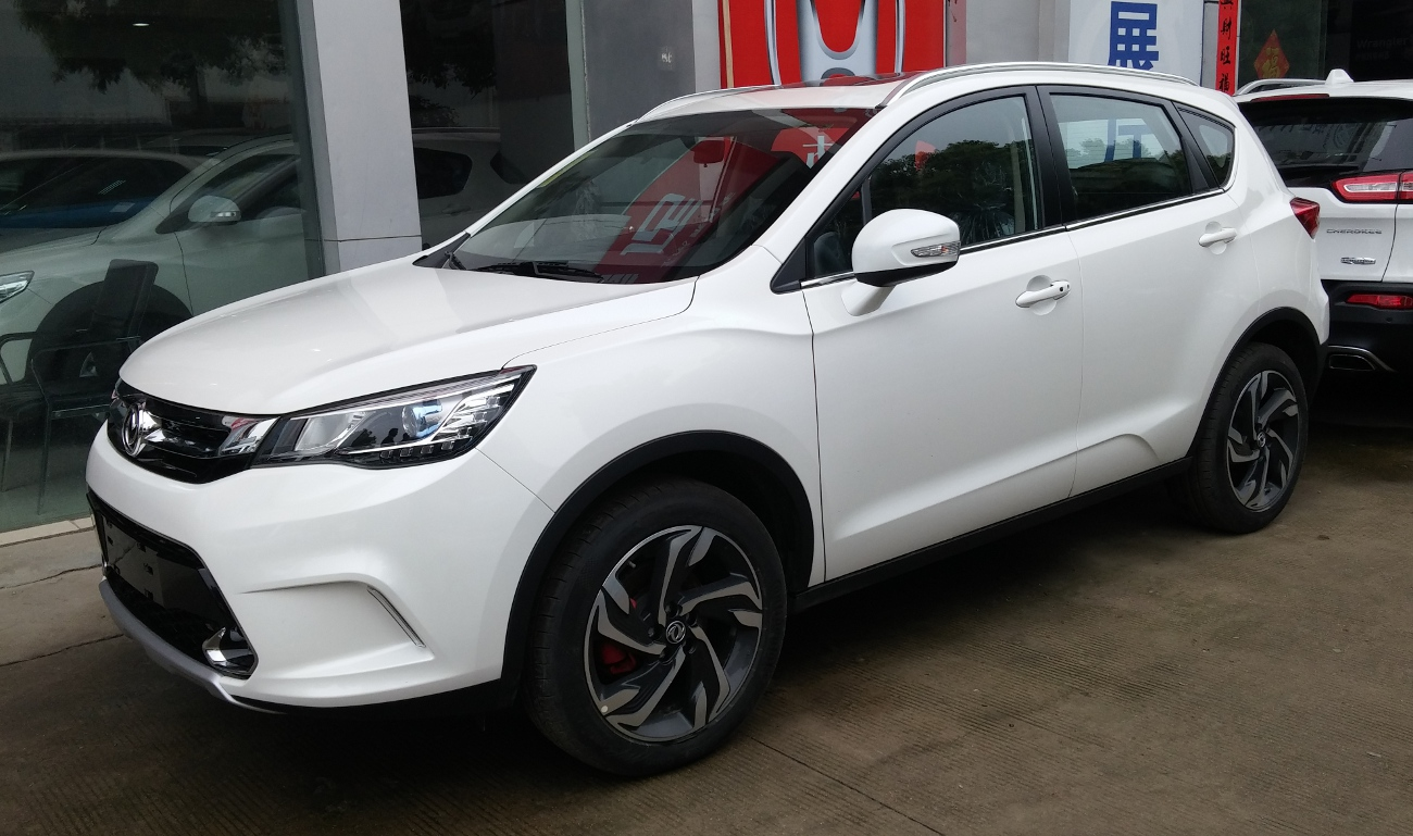 Dongfeng Aeolus AX5 photographed in Wuhan, Hubei province, China.